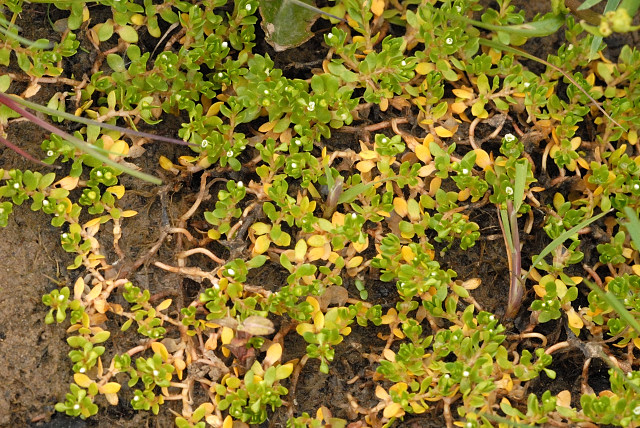 Montia fontana from Commanster, Belgian High Ardennes